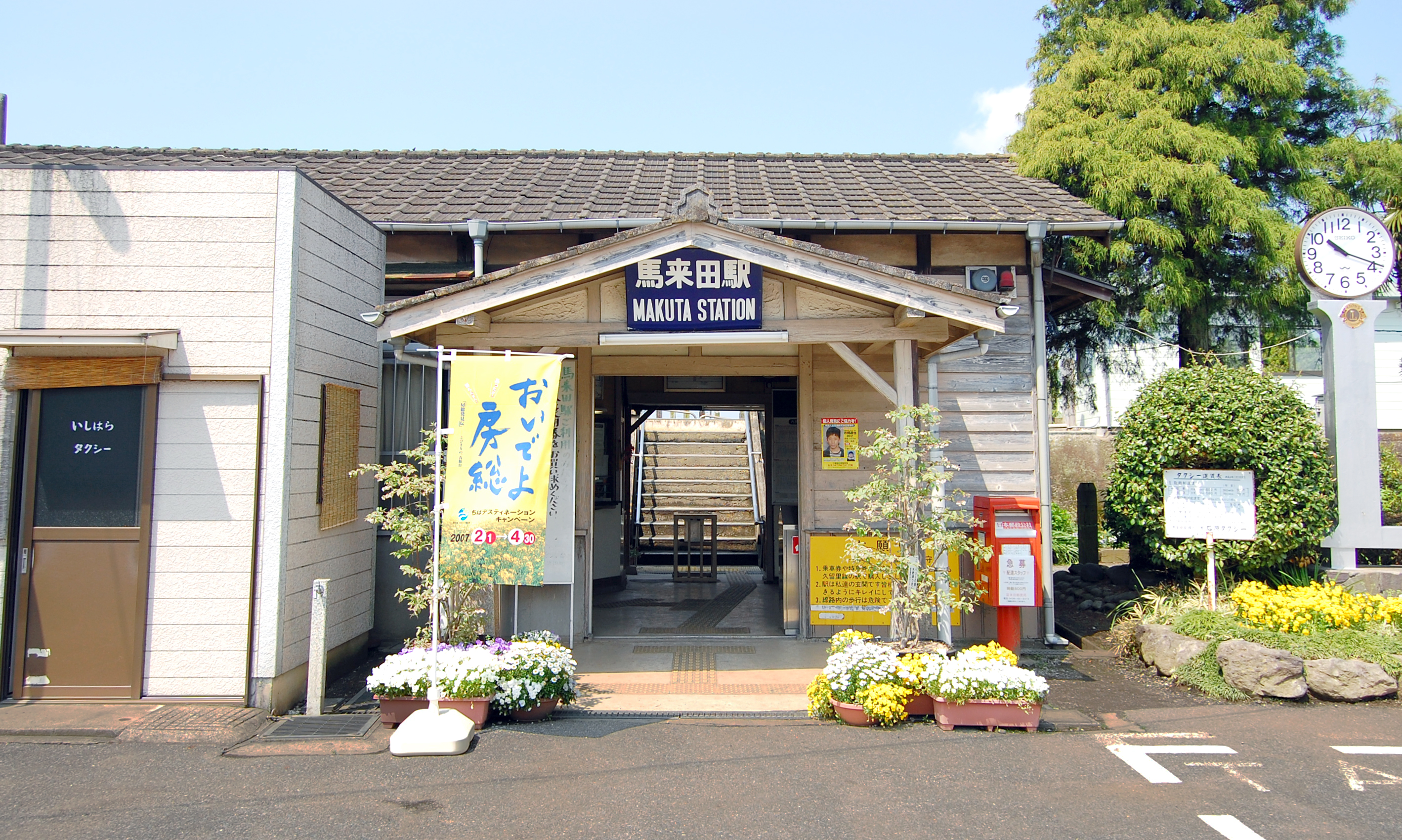 Makuta Station (JR East Kururi Line)